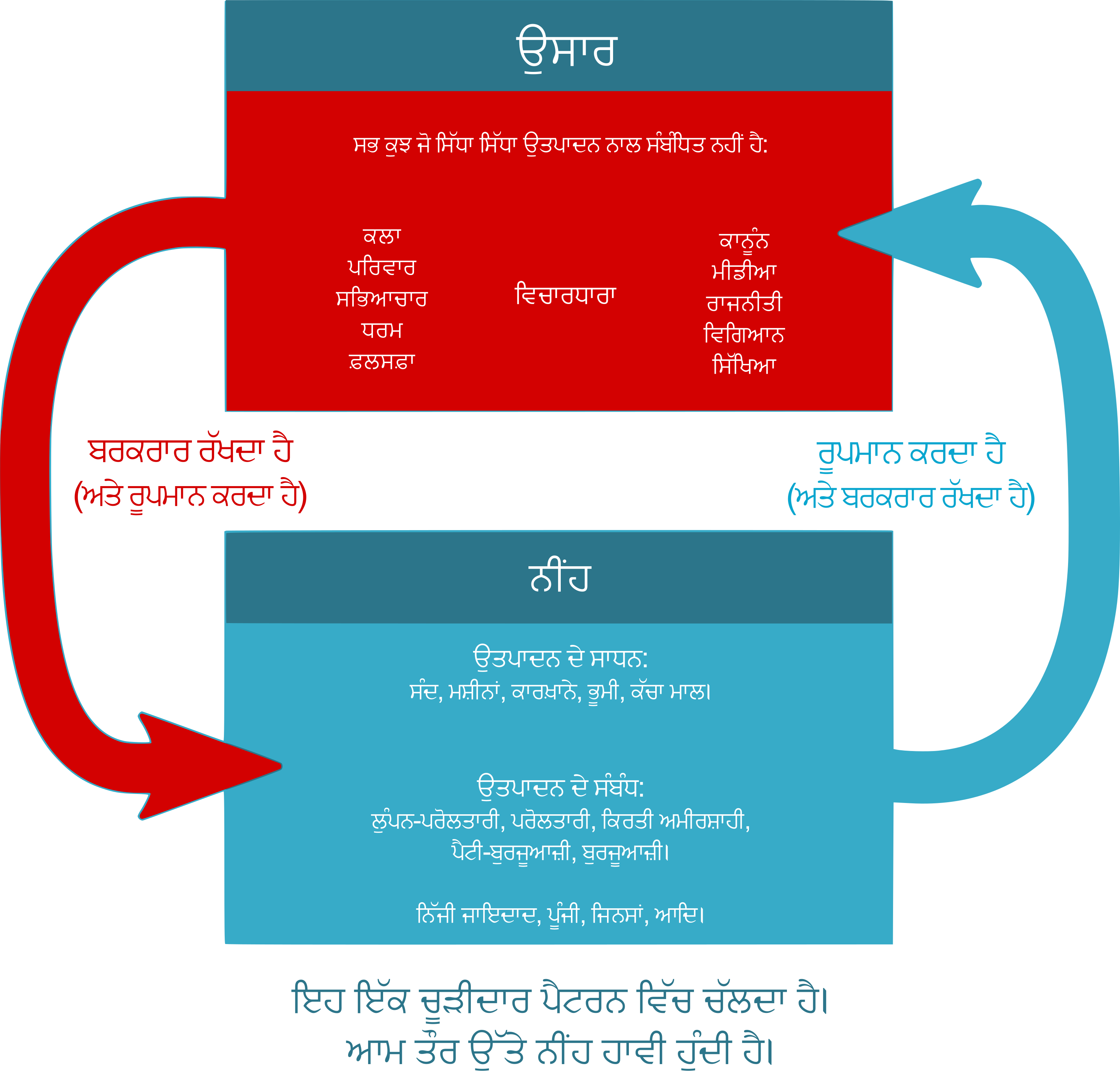 Diagram explaining the marxist Base-Superstructure dialectic. The image only mentions the means of production without taking into account the other category of productive forces, which is labor power.